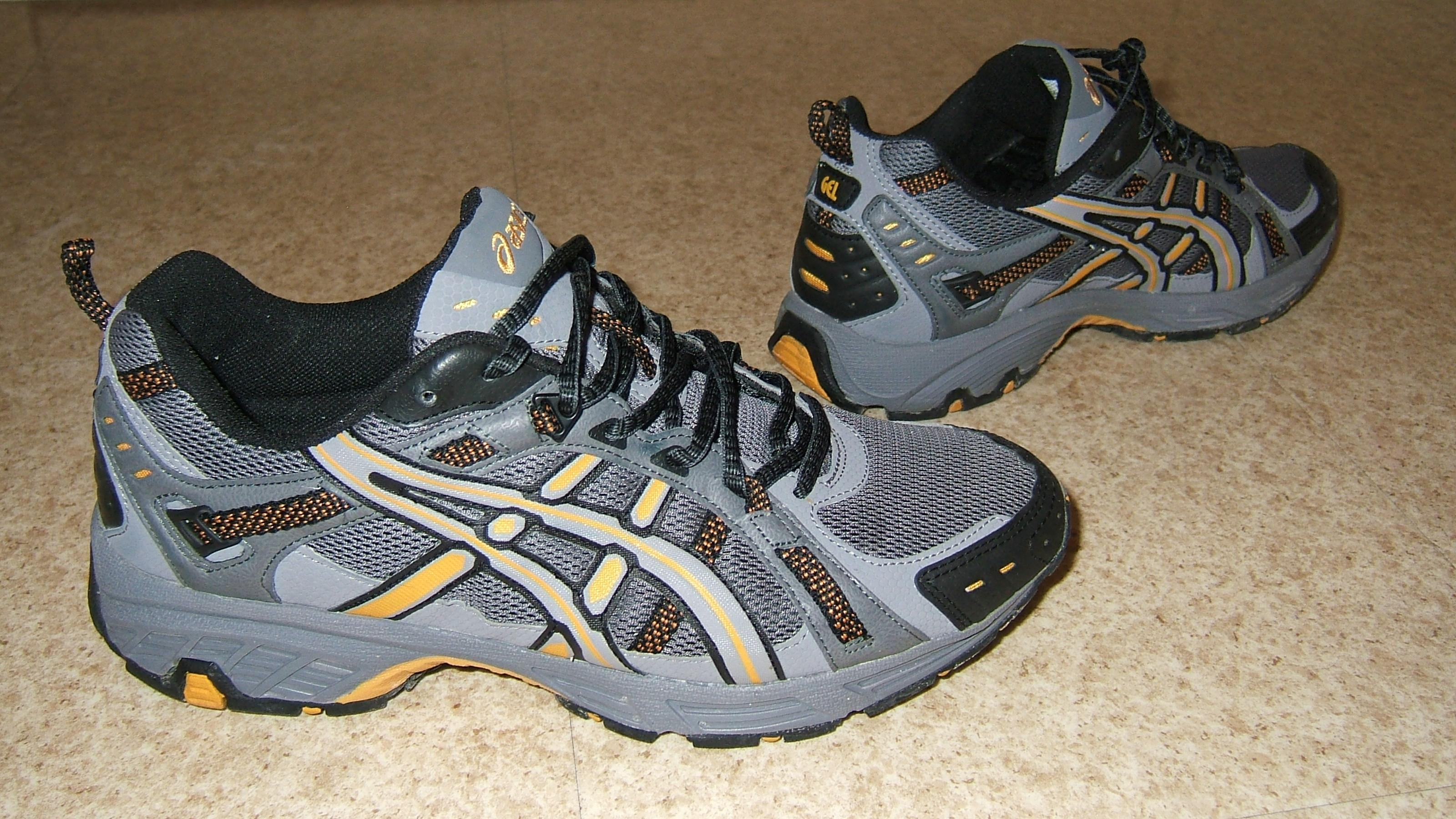 Asics Gel Enduro 2009